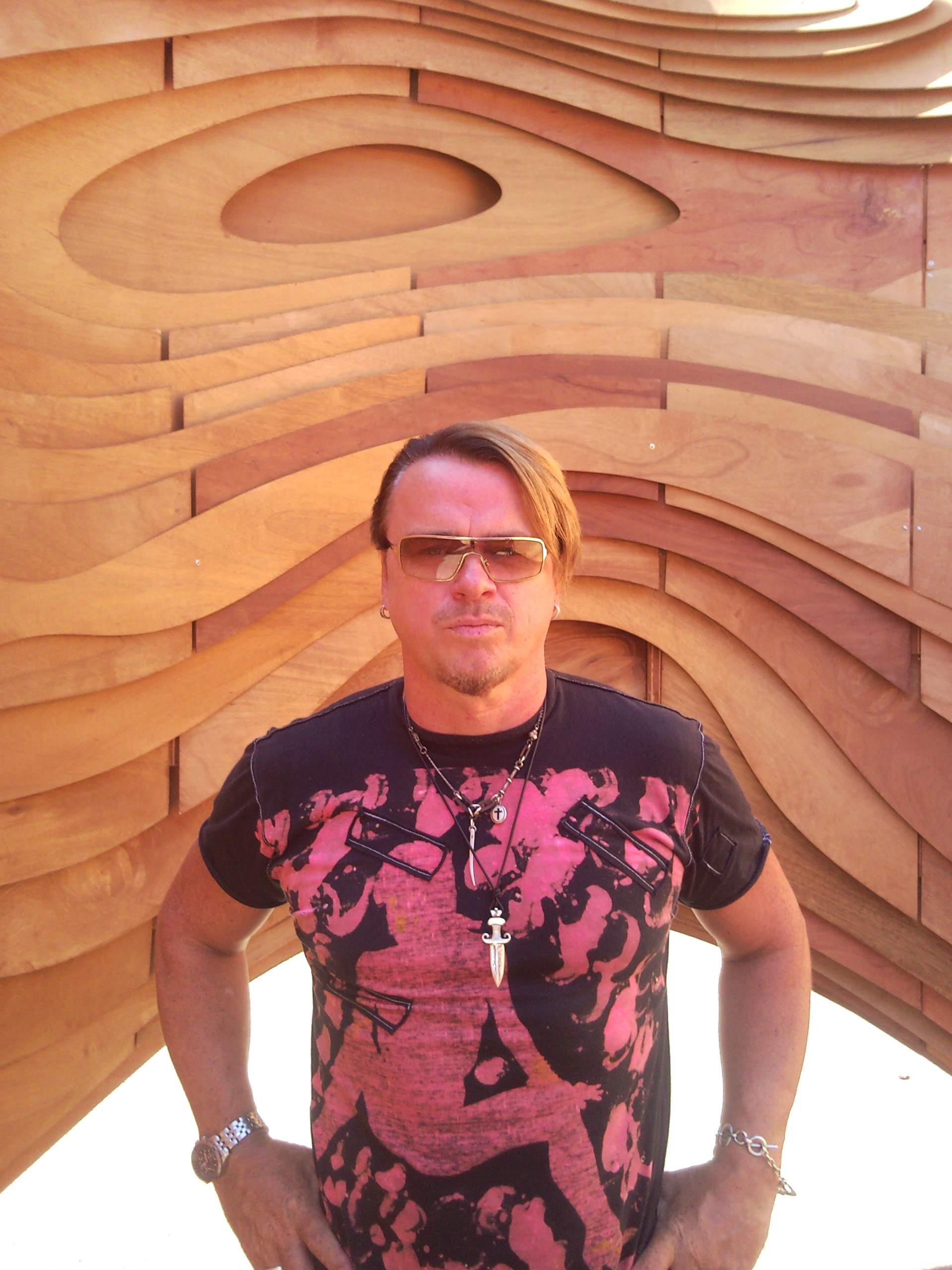 A photo of artist Paul Daly, taken by a member of his staff.